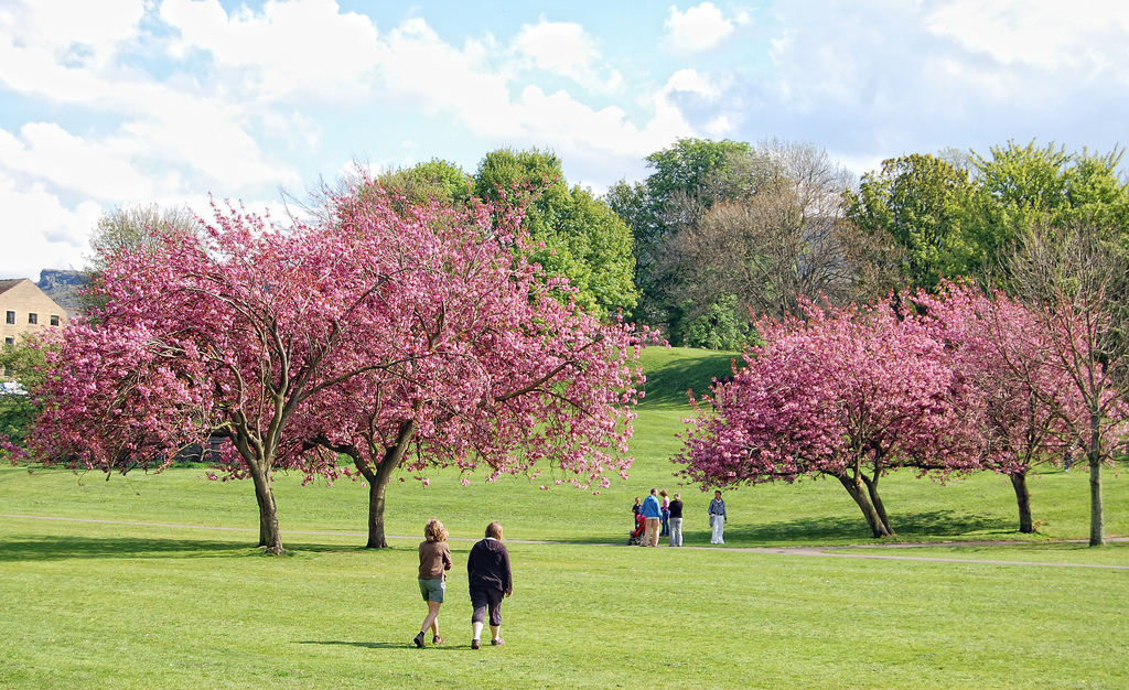 Ilkley is a great place to take a walk when all the vegetation is in full swing and exploding in a variety of picturesque colours. A copy of this file can be found online in its original resolution at this address.